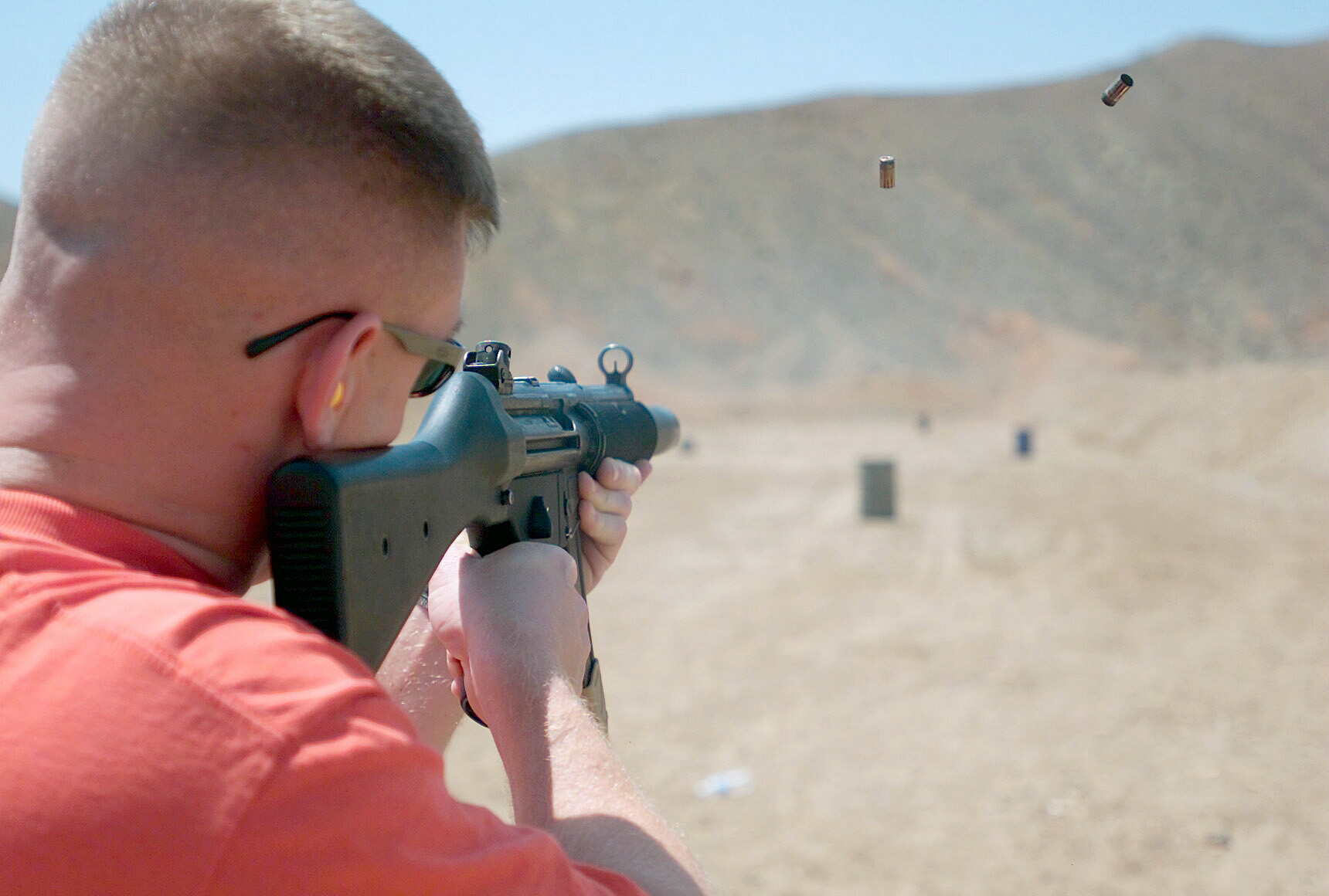 US Marine Corps (USMC) First Lieutenant (1LT) Brett Miner, Headquarters and Headquarters Squadron, fires a 9mm MP5SD Heckler and Koch submachine gun, while attending a period foreign military small arms weapons course at Adair MCAS) Yuma, Arizona (AZ). Location: YUMA, ARIZONA (AZ) UNITED STATES OF AMERICA (USA)